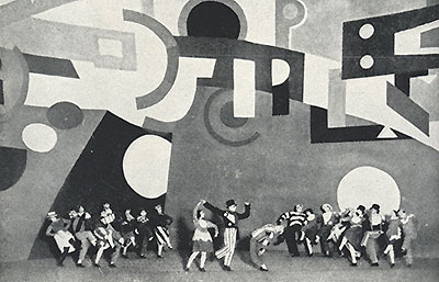 Ballets suédois, Paris, 1922. Published in L'Effort moderne, No.4 May 1924 The scenery was by Fernand Léger